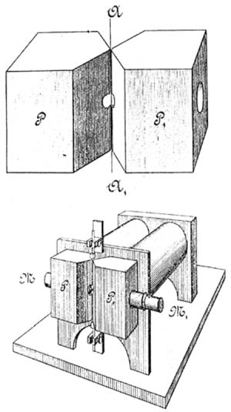 Einthoven's string galvanometer, from his paper “Le Télécardiogramme.”